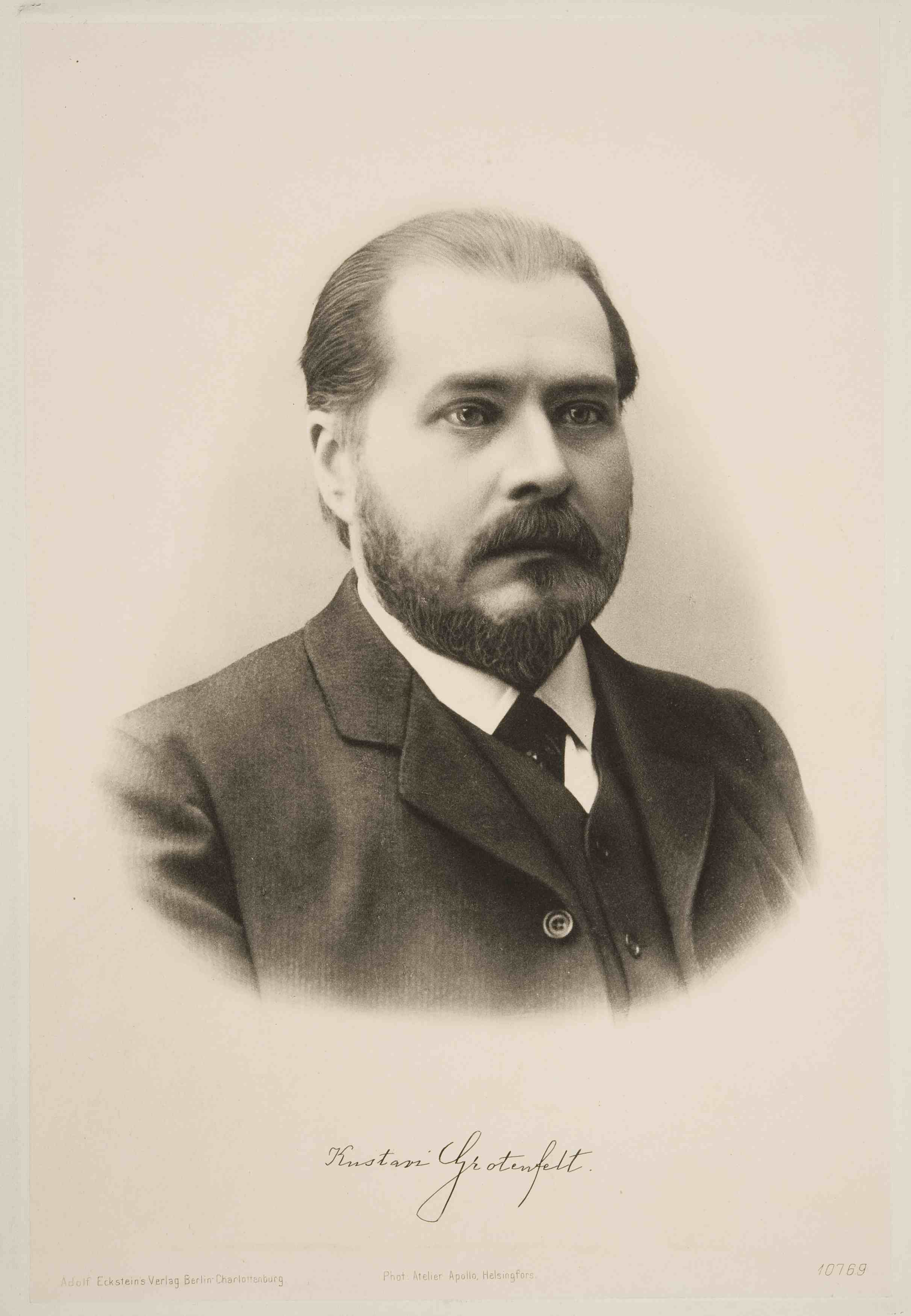 Photograph of the Finnish writer and historian Kustavi Grotenfelt (1861–1928).